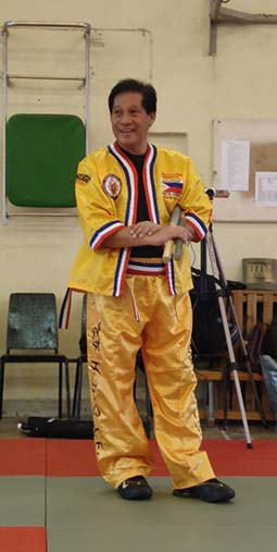 Ernesto Amador Presas